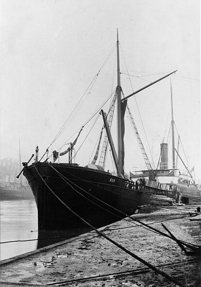 Swedish steamship Bur built 1882